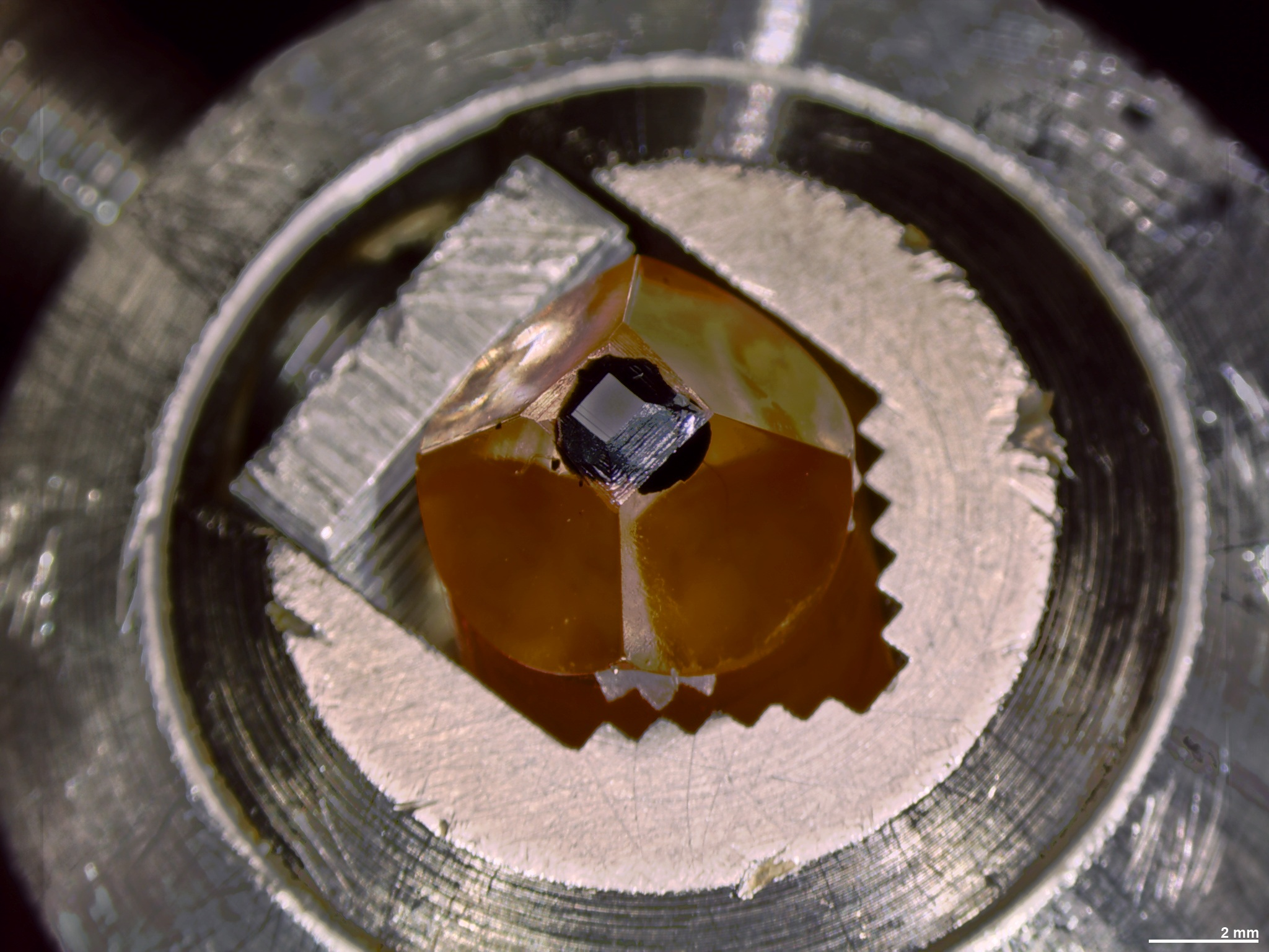 A sample of cells embedded in epoxy resin (amber) for transmission electron microscopy (TEM). The block of epoxy resin is mounted in an ultramicrotome sample. Cells have to be embedded in a hard substance such as epoxy resin for electron microscopy as very thin sections (typically 70 to 350 nm thick) have to be cut for imaging. This block has been trimmed ready for sectioning, the sections will be cut from the 1x1 mm flat square in the center. The cells (black, center) have been fixed with glutaraldehyde and osmium tetroxide then stained with uranyl acetate and are therefore now dark in colour.